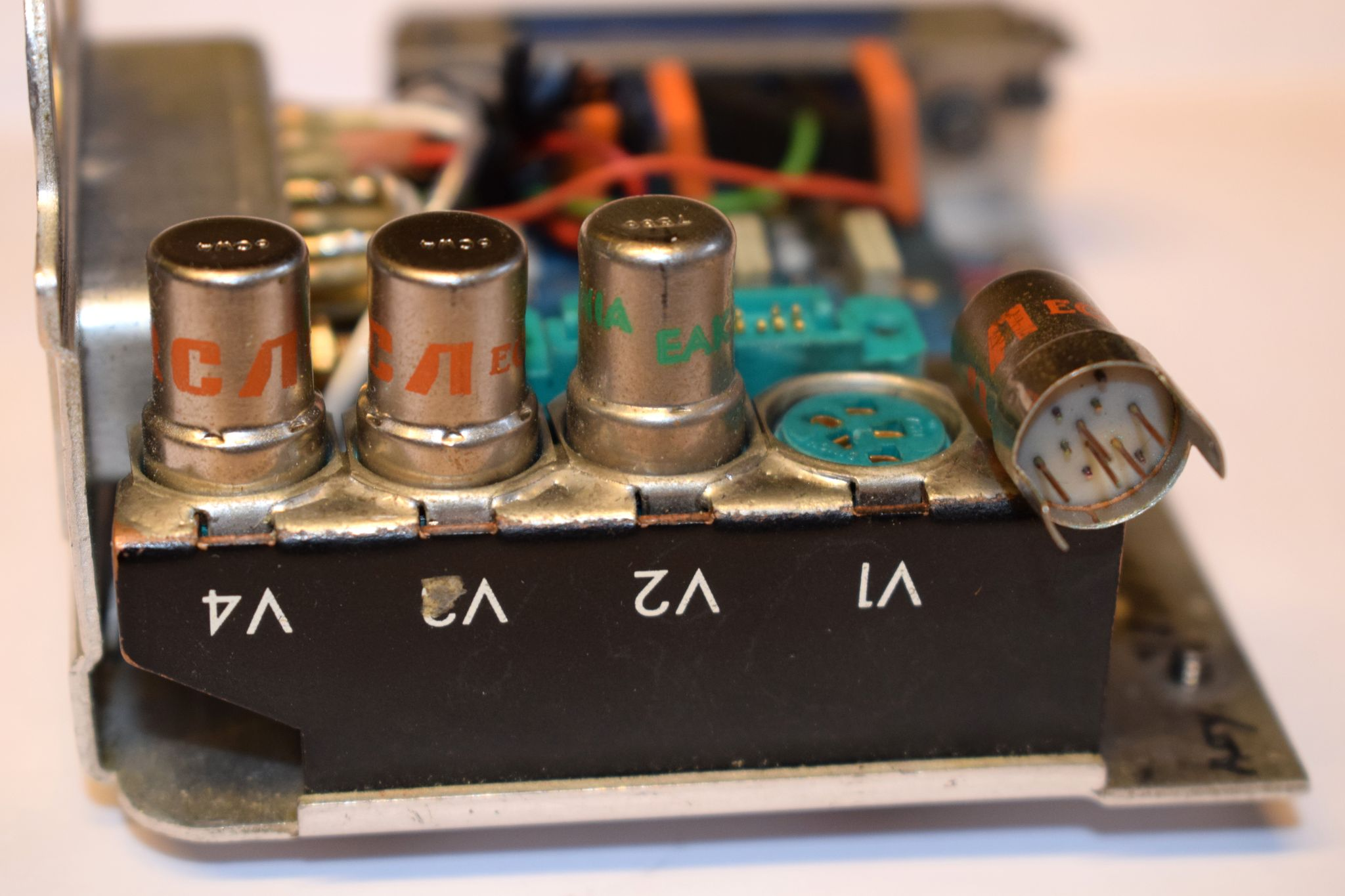 Nuvistor preamplifier, head agregate Ampex Mark 10 (Quadruplex)